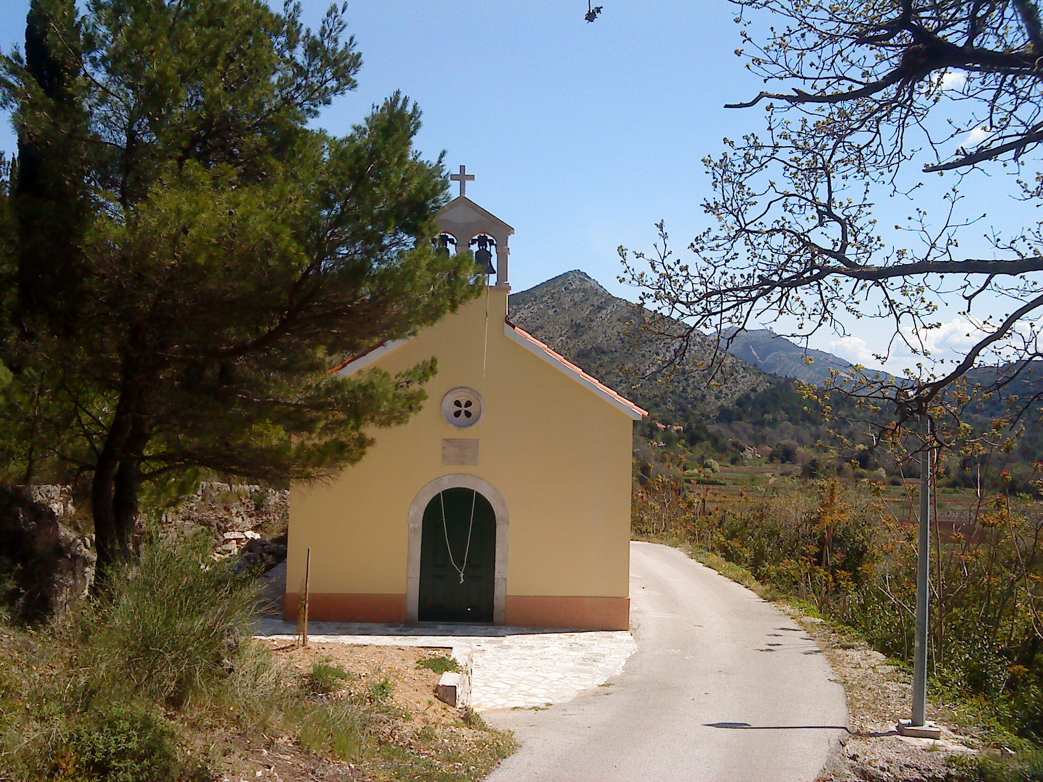 St. Catharine of Alexandria church in Oskorušno